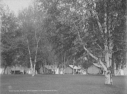 Tenting, the Inn, Upper Saranac Lake, Adirondack Mts., N.Y.